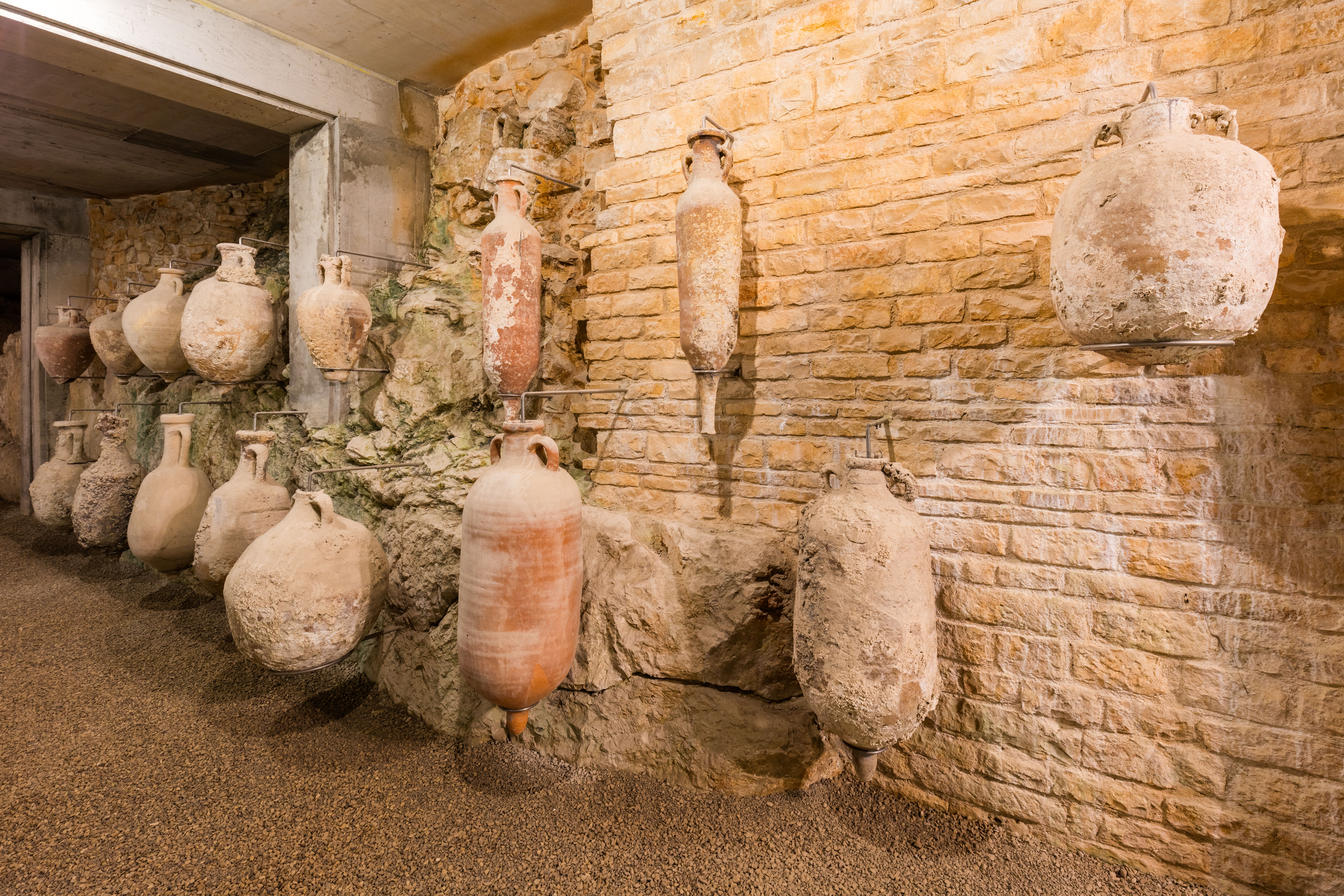 Pula amphitheatre, Croatia. This is a a photo of a cultural heritage in Croatia with ID: Z-863